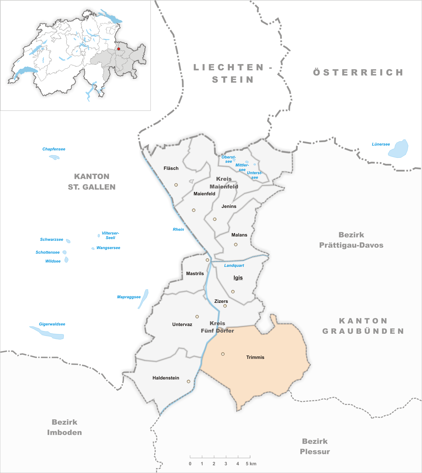 Municipality Trimmis